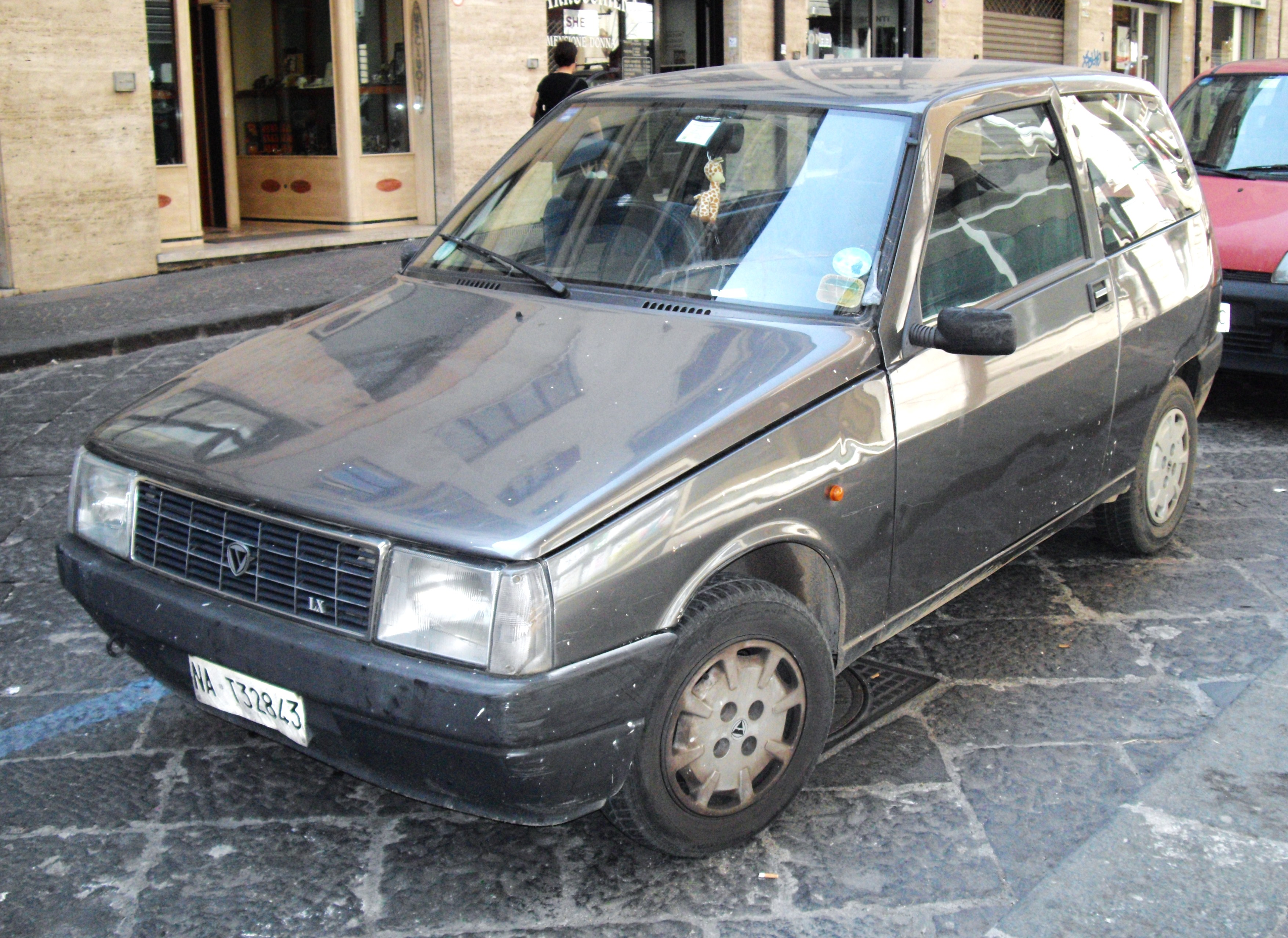 Autobianchi Y10